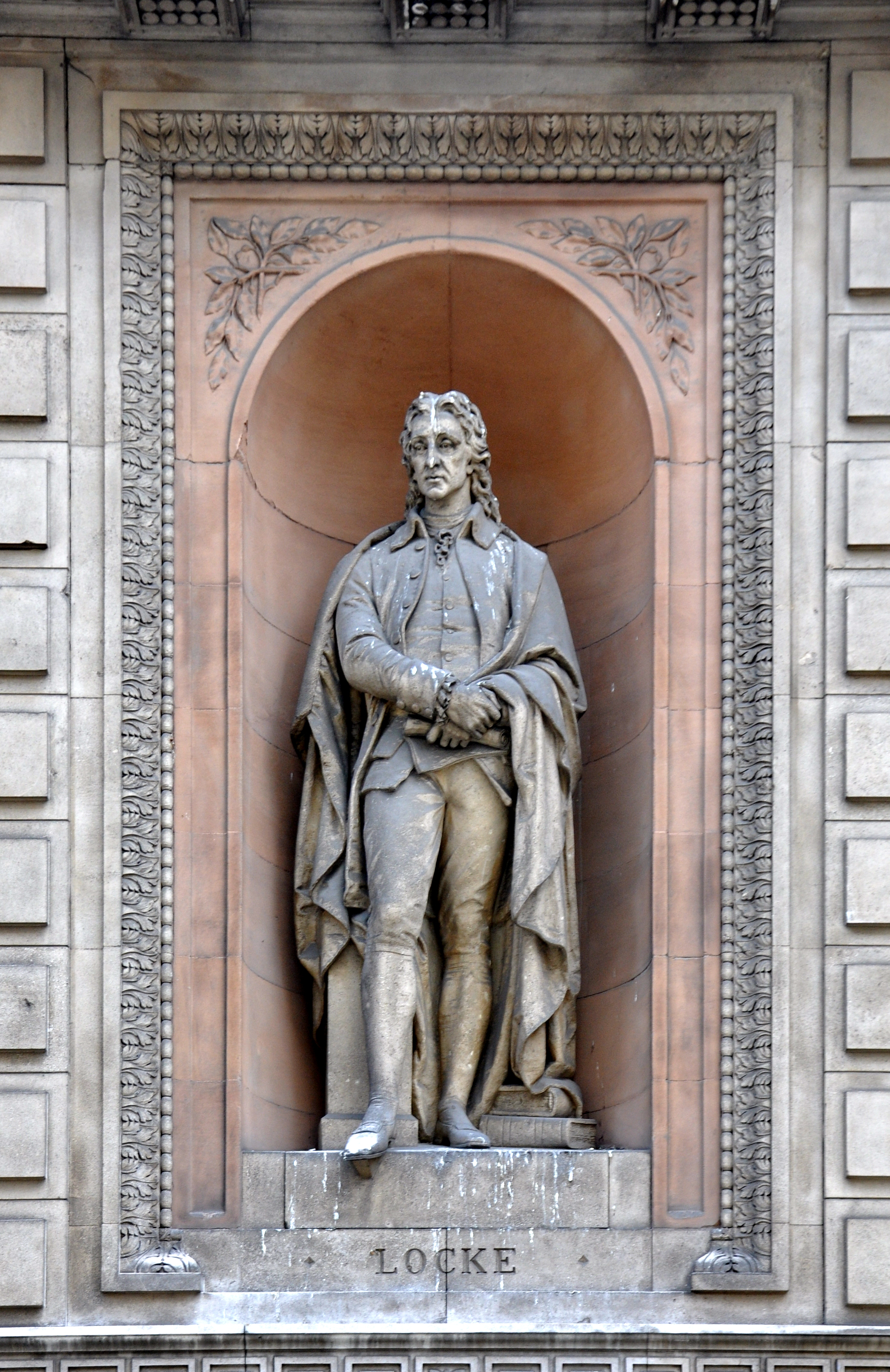 London, 6 Burlington Gardens (built 1867–1870 as headquarters of the University of London), façade statue of John Locke